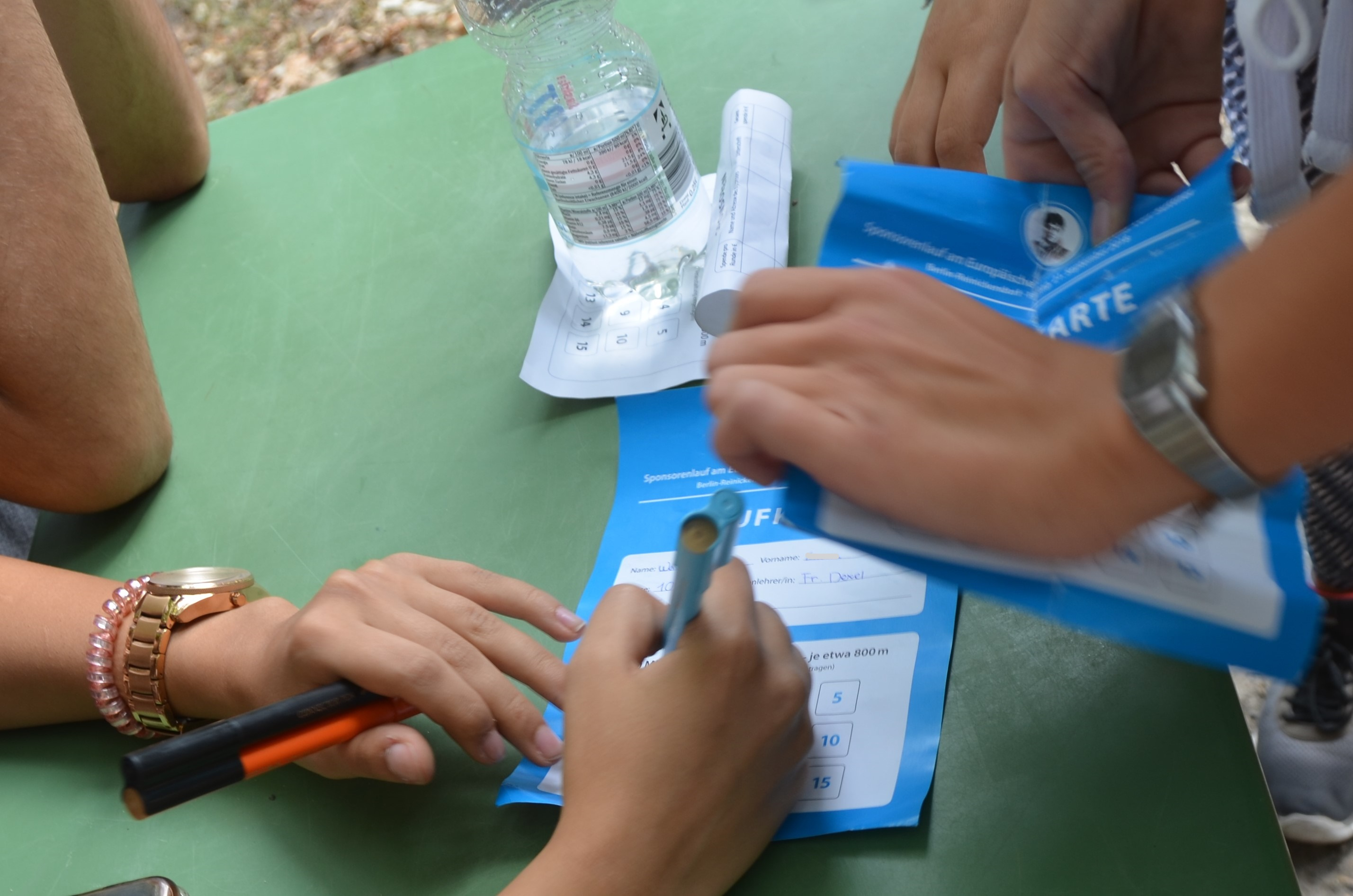 sponsorship run at Europäisches Gymnasium Bertha-von-Suttner (Berlin)